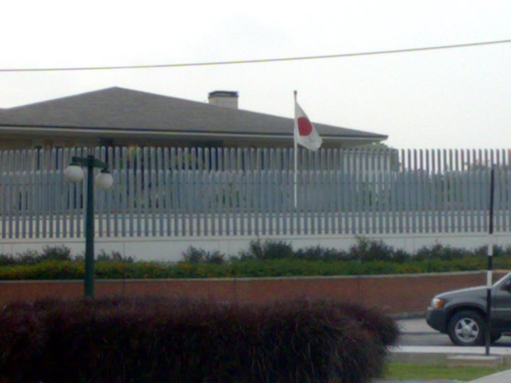 Embassy of Japan in Lima, located before November 2017